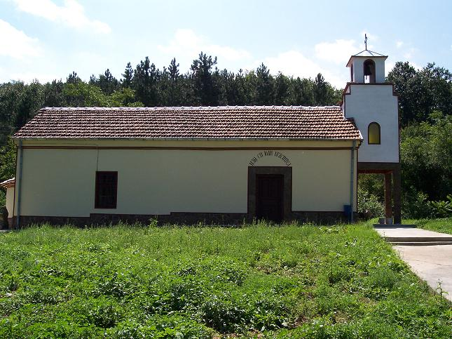 Church "Saint John Baptist" in village Vinishte, Bulgaria